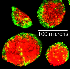 Illustration of "cell sorting-out" for Morphogenesis. Cultured P19 embryonal carcinoma cells. Live cells were stained with either DiI (red) or DiO (green). The red cells were genetically altered and express higher levels of E-cadherin than the green cells. The image was captured by scanning confocal microscopy.